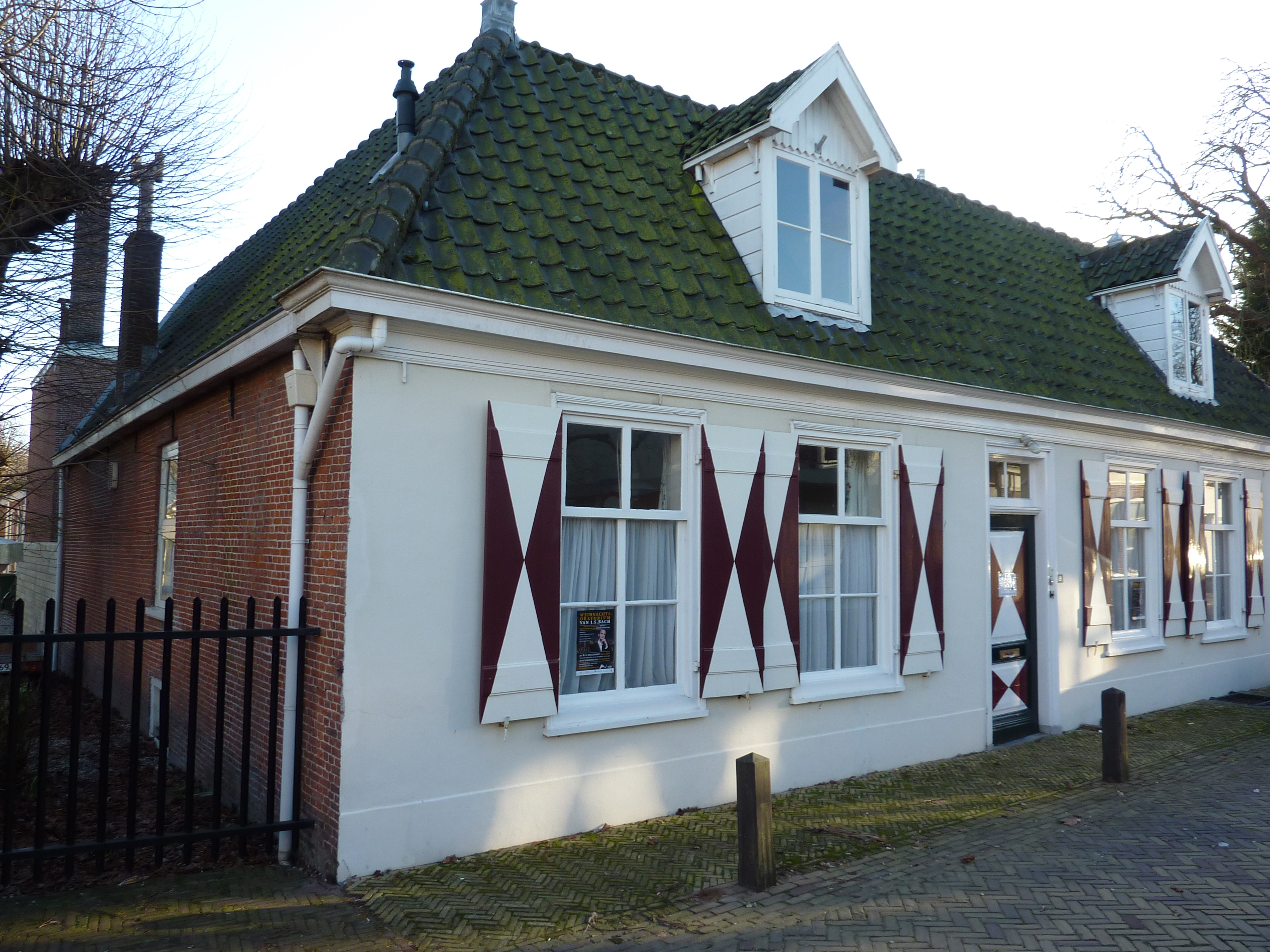 Noordwijk, Klein Offem